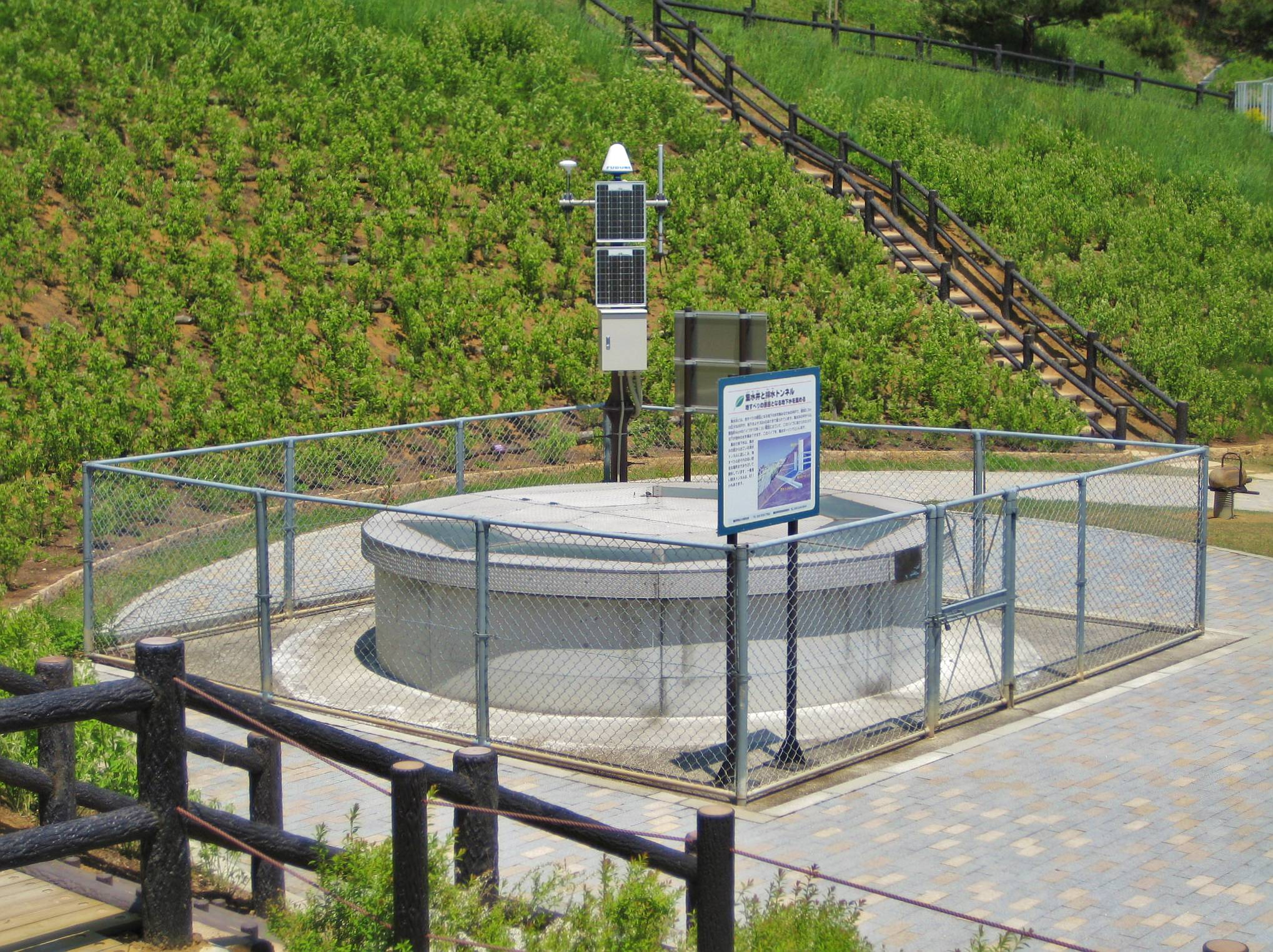 Jizukiyama drainage well and GPS based landslide surveillance system.